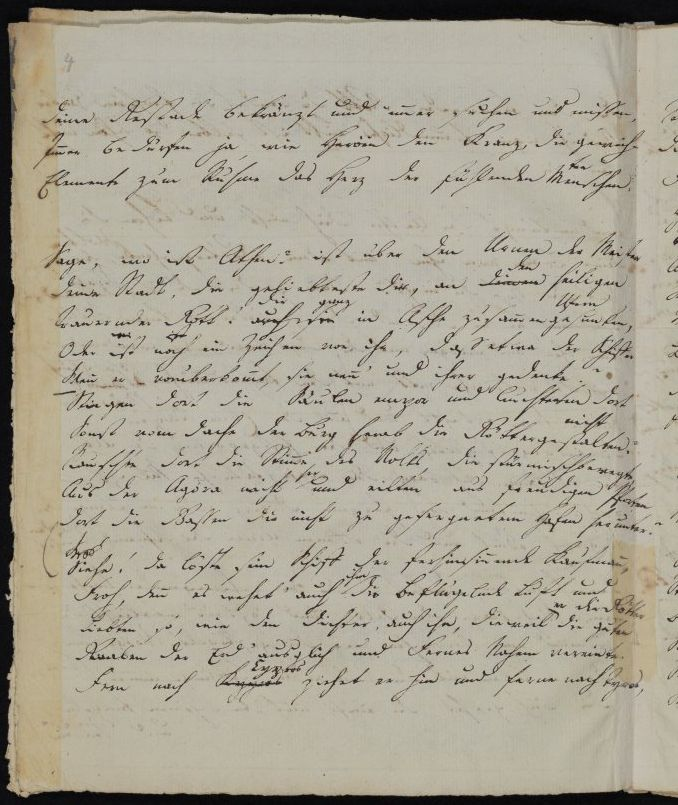 Manuscript of Friedrich Hölderlin: Der Archipelagus, page 4. From Homburg